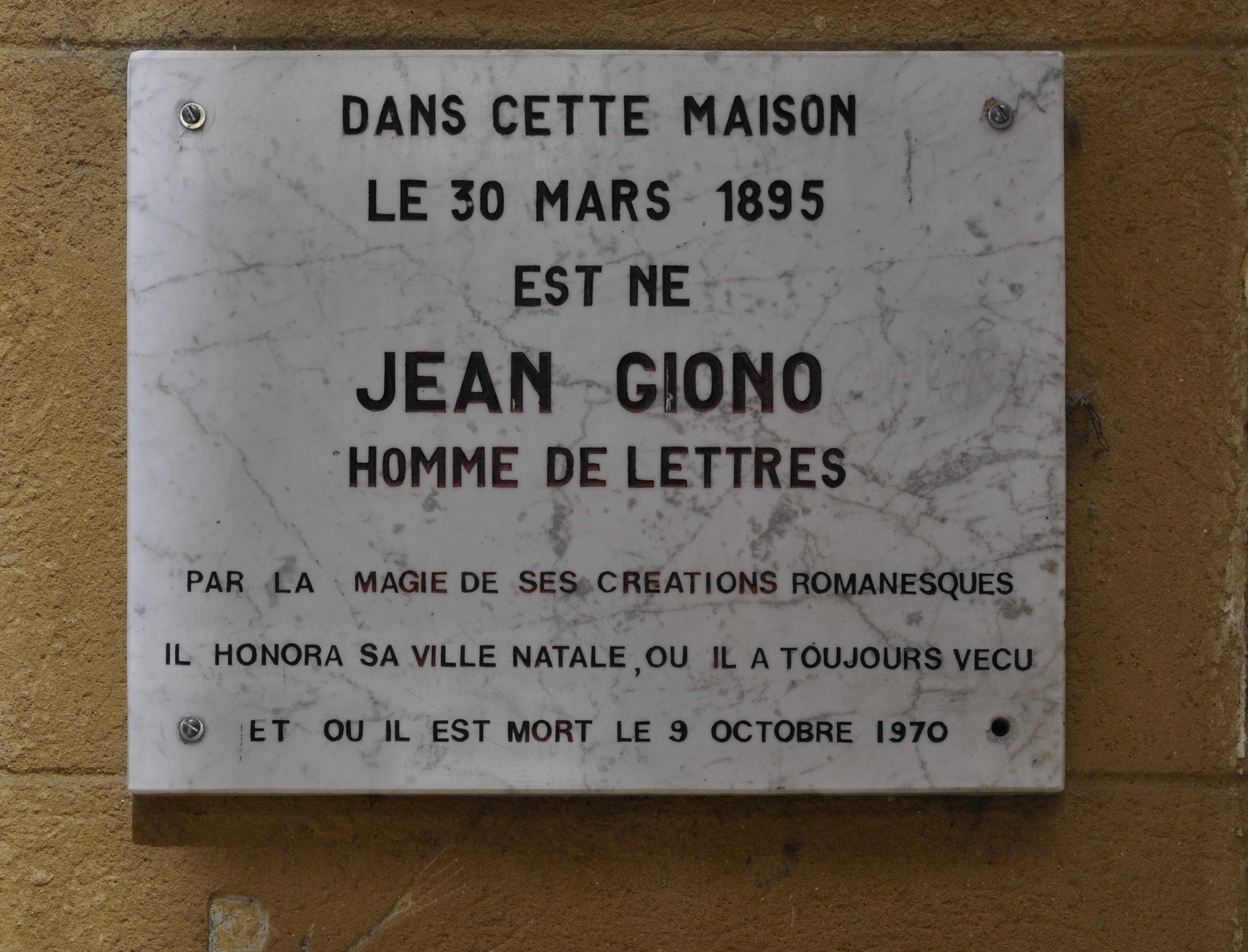 Jean Giono's house in Manosque (Commemorative tablet)